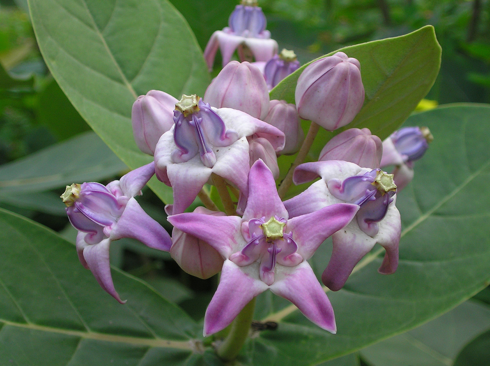 Family: Asclepiadaceae Distribution: A common weed in waste places and as pure strands along the coast. Distibuted in India, Srilanka and Chaina, Malaysia. 1-2.5mts tall shrubs, stem branched, all fleshy parts of the plant secrete milky latex, Leaves leathery, with white waxy coating, in opposite decussate phyllotaxy, 4-11x3-6cm, base auricled, sessile, obovate acute, Flowers 2-3cm across, pale bluish- purple in terminal umbellate cymes. Calyx 5 lobed, corolla lobes 5, spreading, corona scales narrow, shorter than the staminal column, corona lobes fleshy adnate to and radiating from the large staminal column with an up curved involute spur. Stamens inserted at the base of the corolla, anthers short horny at the angled wings. Pollen masses solitary. Ovary of 2 distinct carpels, styles slender united above half way and stigma a depressed pentagonous flehy structure. 2 large inflated fleshy follicles from a single flower. Seeds comose. Photographed at Nellore. The plant is toxic but in very small quantities the root bark, flowers, leaves, and latex are used as medicine in Ayurveda and tribal medicine. Reference: e floras, ENVIS, Flora of Madras Presidency by J.S.Gamble.